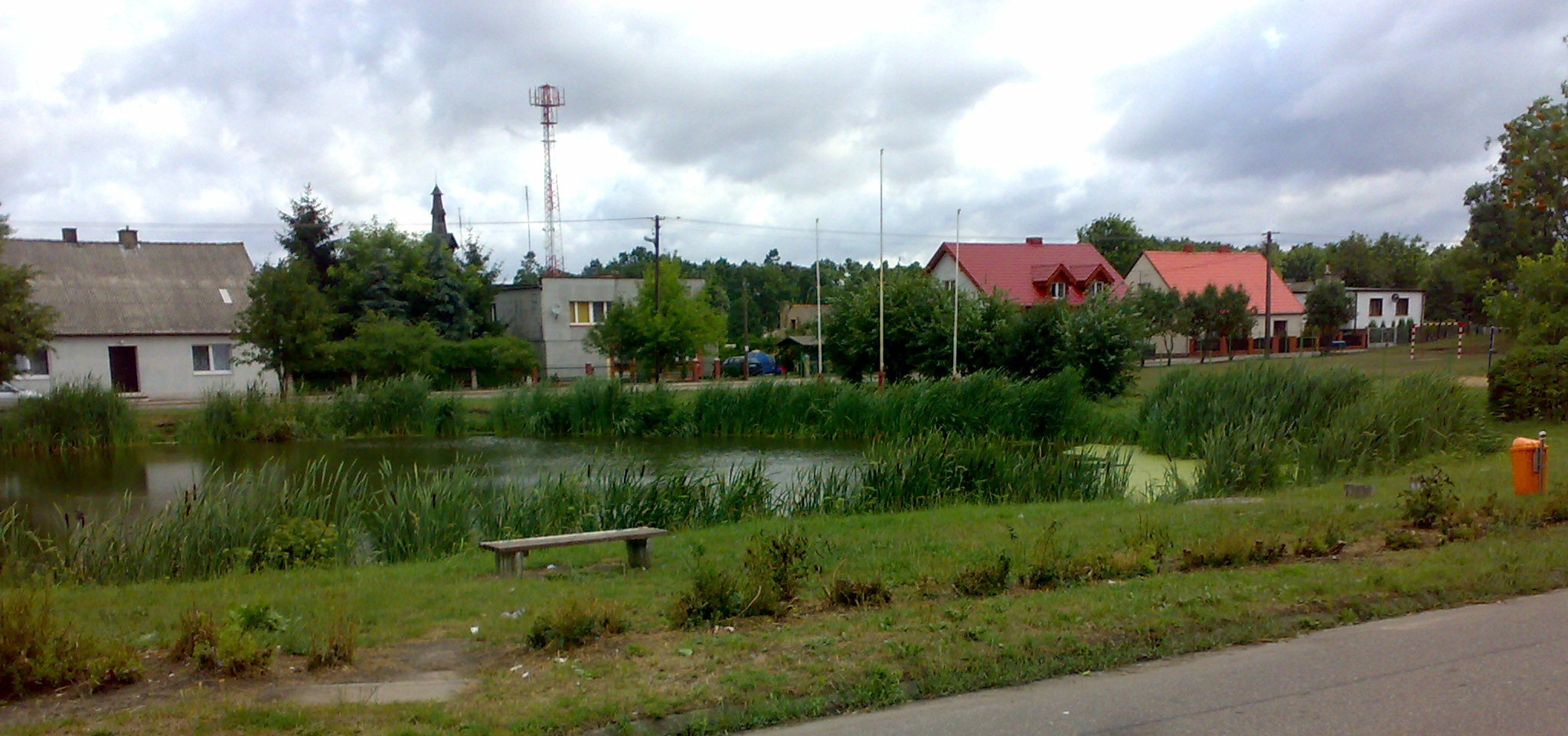 Parkowo PL.